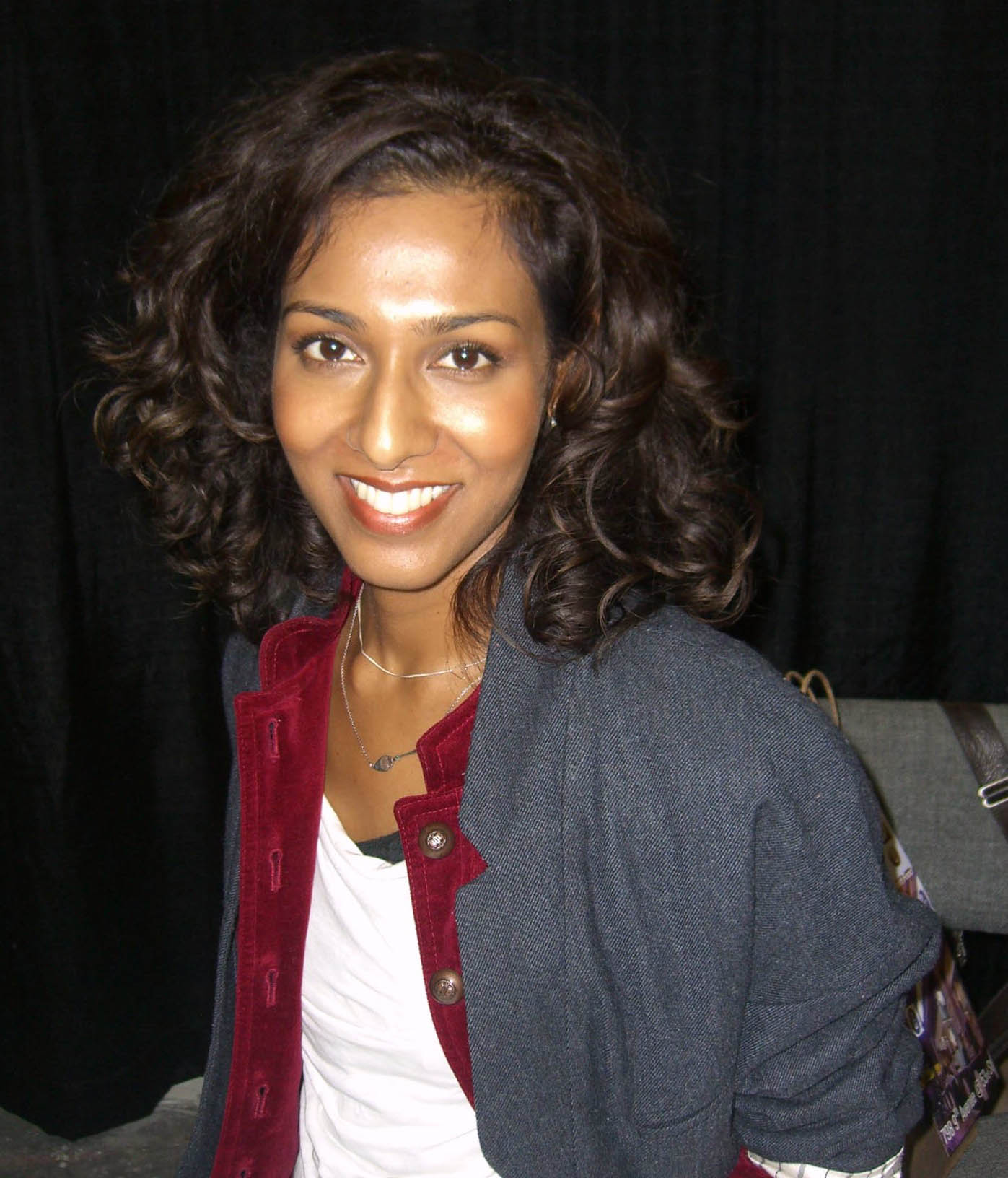 Canadian actress Rekha Sharma at the Big Apple Convention in Manhattan. Photographed by Luigi Novi. This photo may only be used if the photographer is properly credited. (See Licensing information below.)